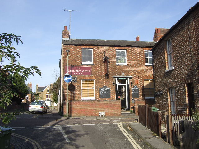 The Gardeners Arms, Jericho, Oxford This is a cracking back street local. Not only does it have a good range of well kept beers (always one from Yorkshire like Tim Taylor's to keep the landlord happy)but the varied veggie and vegan menus shame the dire 'lasagne and curry' veggie offerings elsewhere.